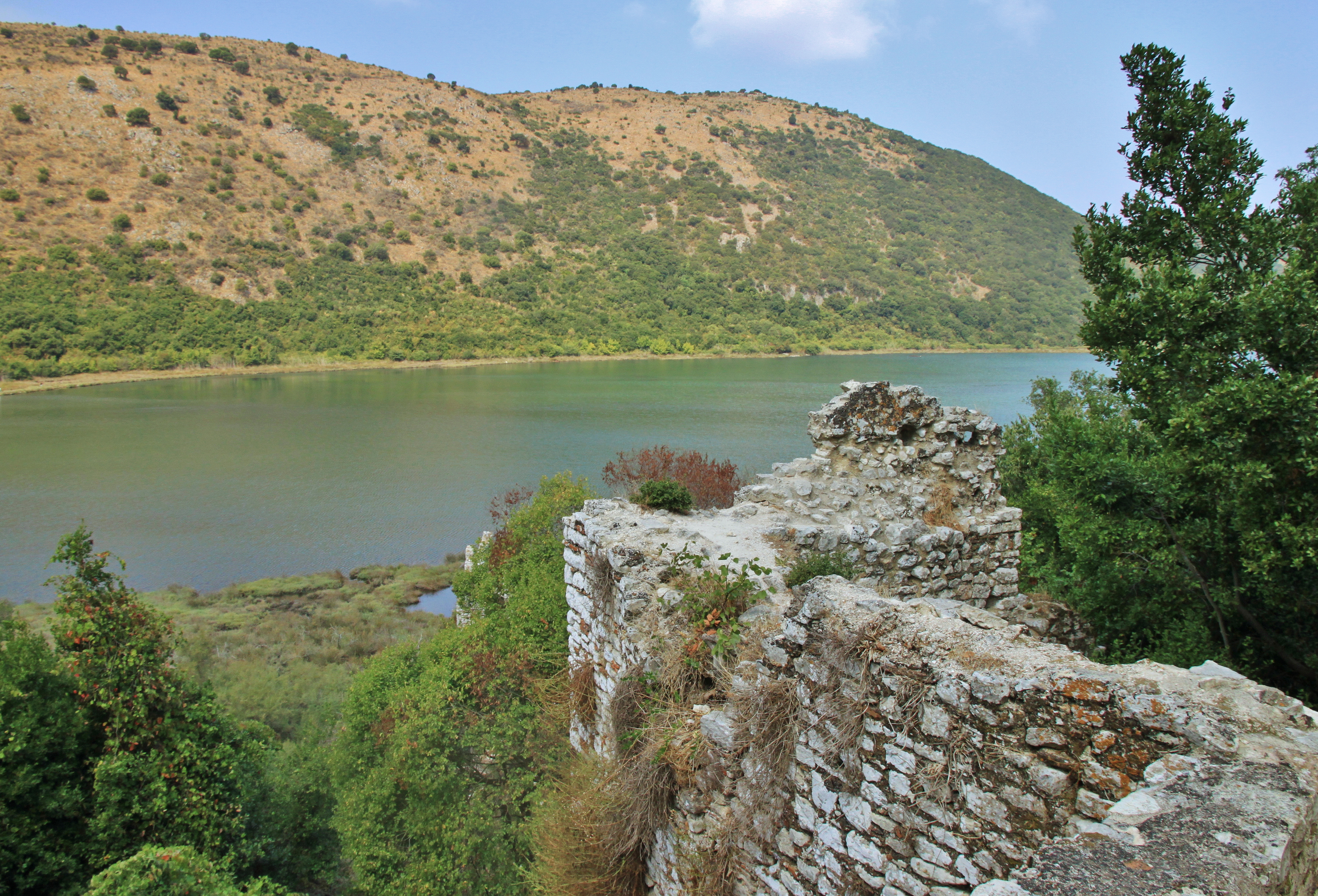 View of the city walls and the Butrinti Lagoon, Buthrotum, Vlorë County, Albania.